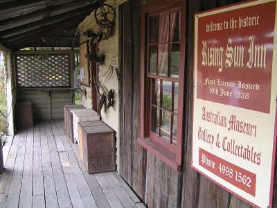 Rising Sun Inn, Millfield: Rising Sun Inn (former)